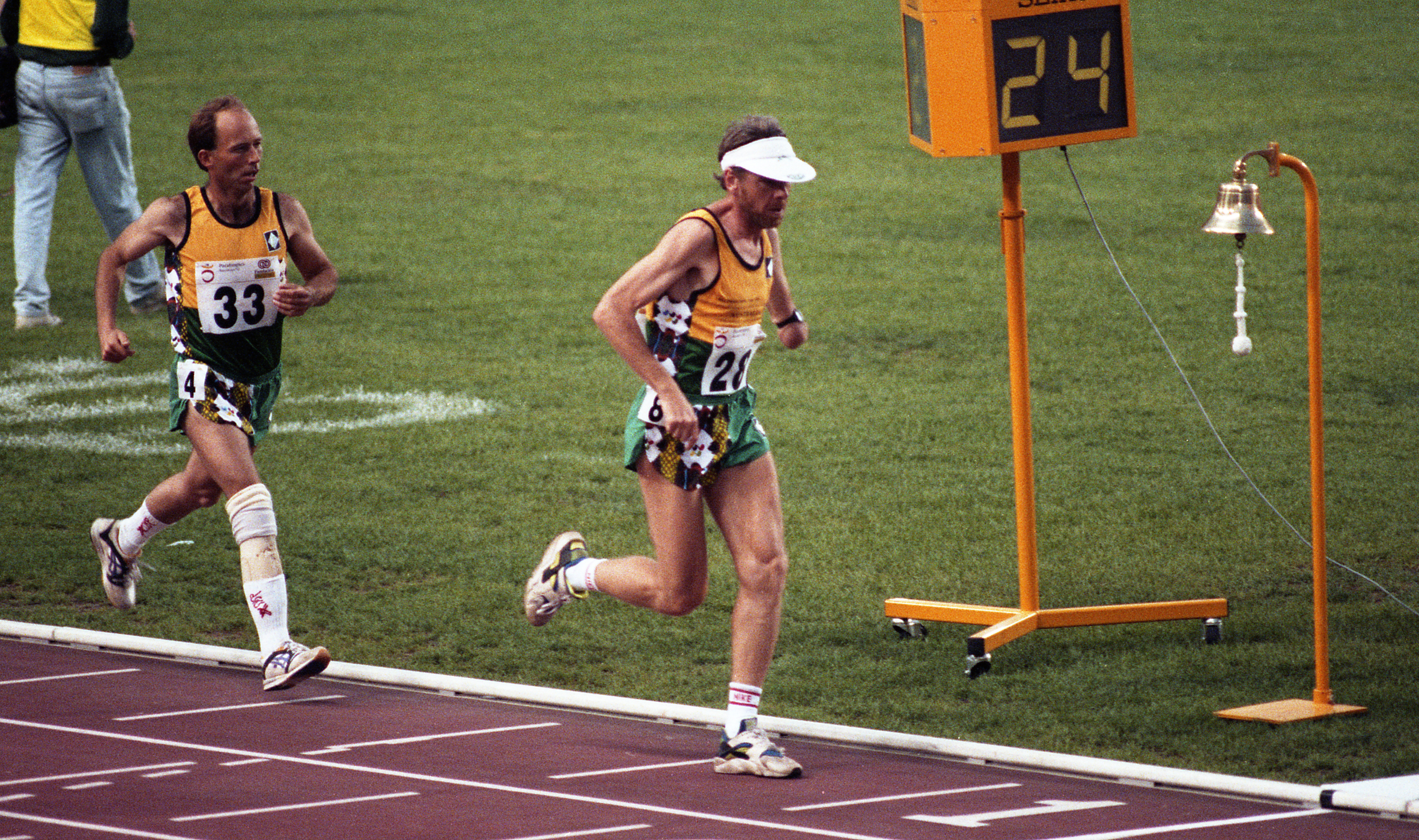 Paul Croft and Kyrra Grunnsund, Australian runners, in 10000m at the Barcelona 1992 Paralympic Games.